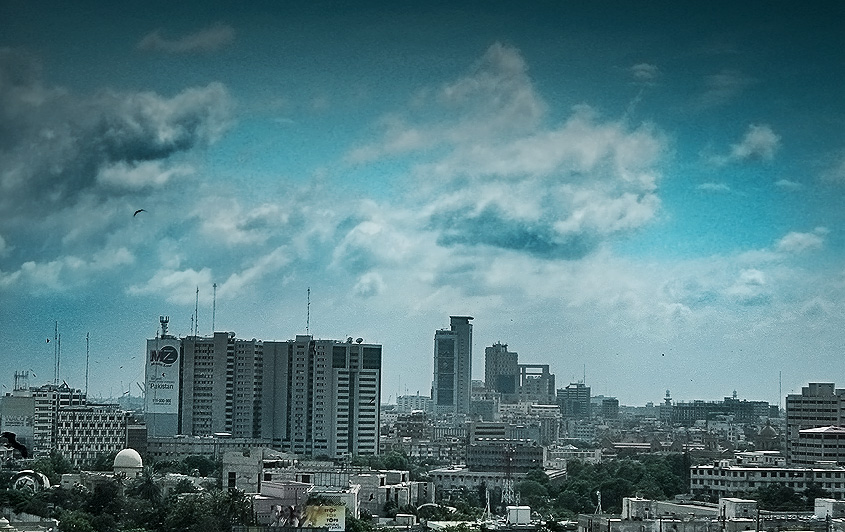 The skyline of Karachi